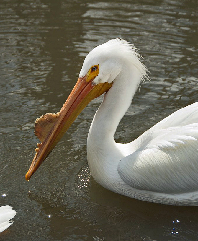 An American White Pelican (also known as the Rough-billed Pelican) at Tulsa Zoo, Oklahoma, USA.